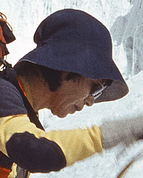 Junko Tabei in 1985 at Communism Peak (now known as Ismoil Somoni Peak).